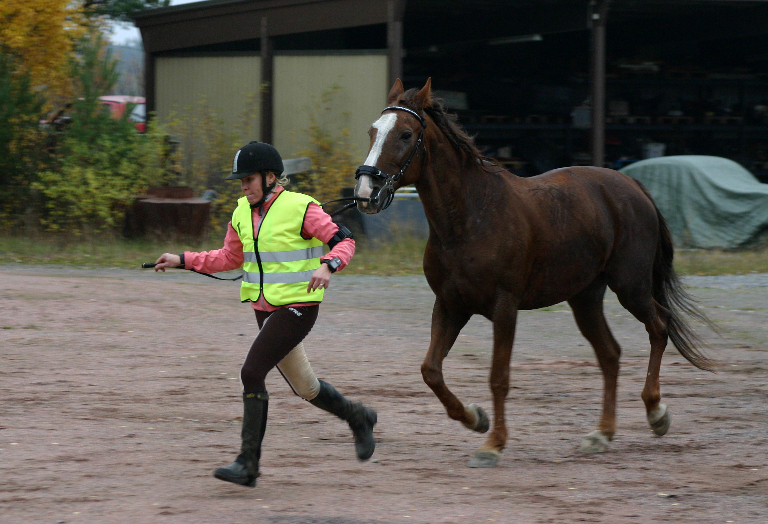 The day's only 80 km competitors at a vet control.